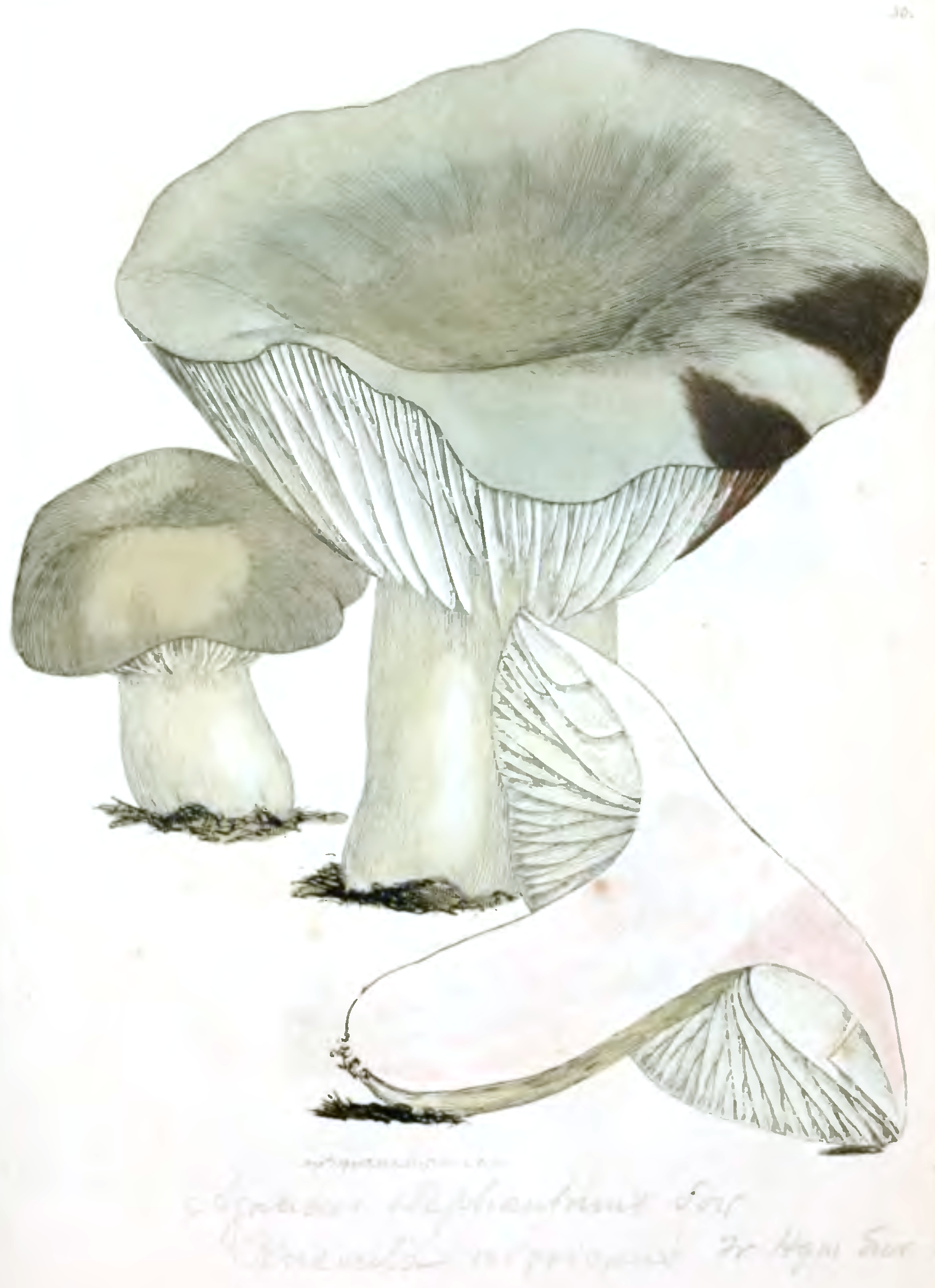 This is plate 36 from James Sowerby's Coloured Figures of English Fungi or Mushrooms. See below for more details.